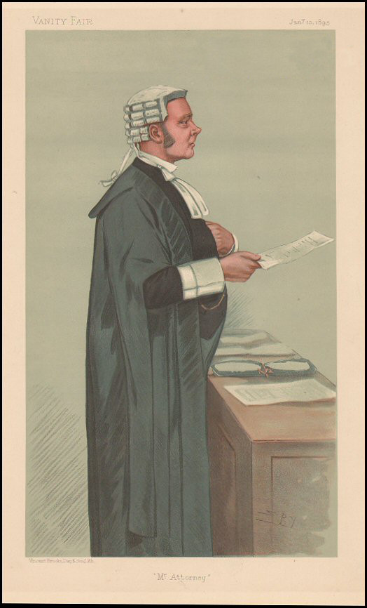 Statesmen No.646: Caricature of Sir RT Reid QC. Caption reads: "Mr Attorney"